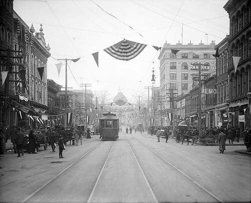 Historic view of Fayetteville Street in Raleigh, North Carolina.